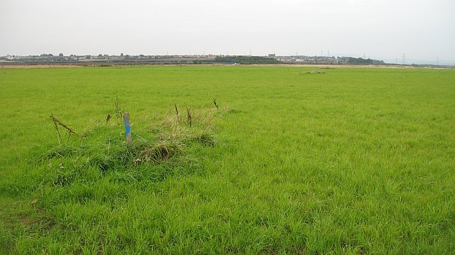 Blindwells A wet grass field crossed by lots of motorcycle track, and inhabited by snipe. In the 1990s this was a huge opencast mine, and before that there was a farm here. View towards Tranent. Future plans are for a new town with a population of 5000 on this site.